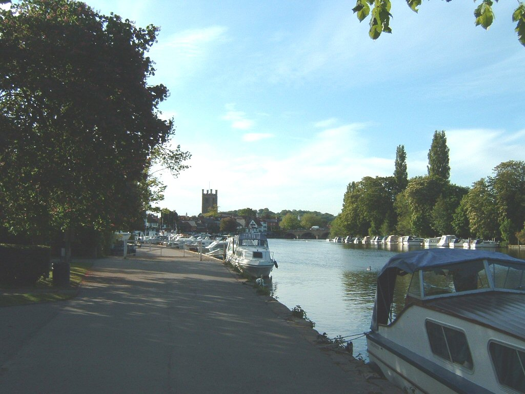 View of Henley-on-Thames, England, on the River Thames. A picture taken by User:Scu98rkr, July 2003.